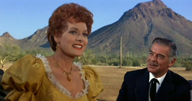 Maureen O'Hara and Robert Lowery in McLintock! (cropped screenshot)